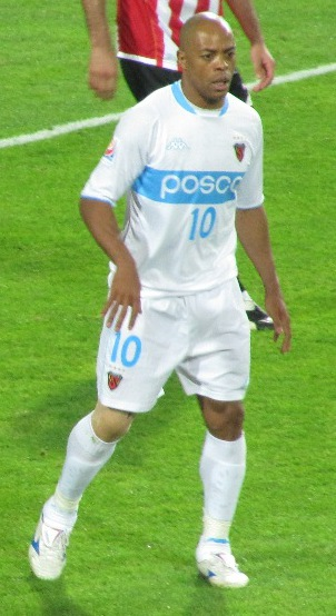 Germán Ré & Denilson during the semifinal match of 2009 FIFA Club World Cup in Abu Dhabi.